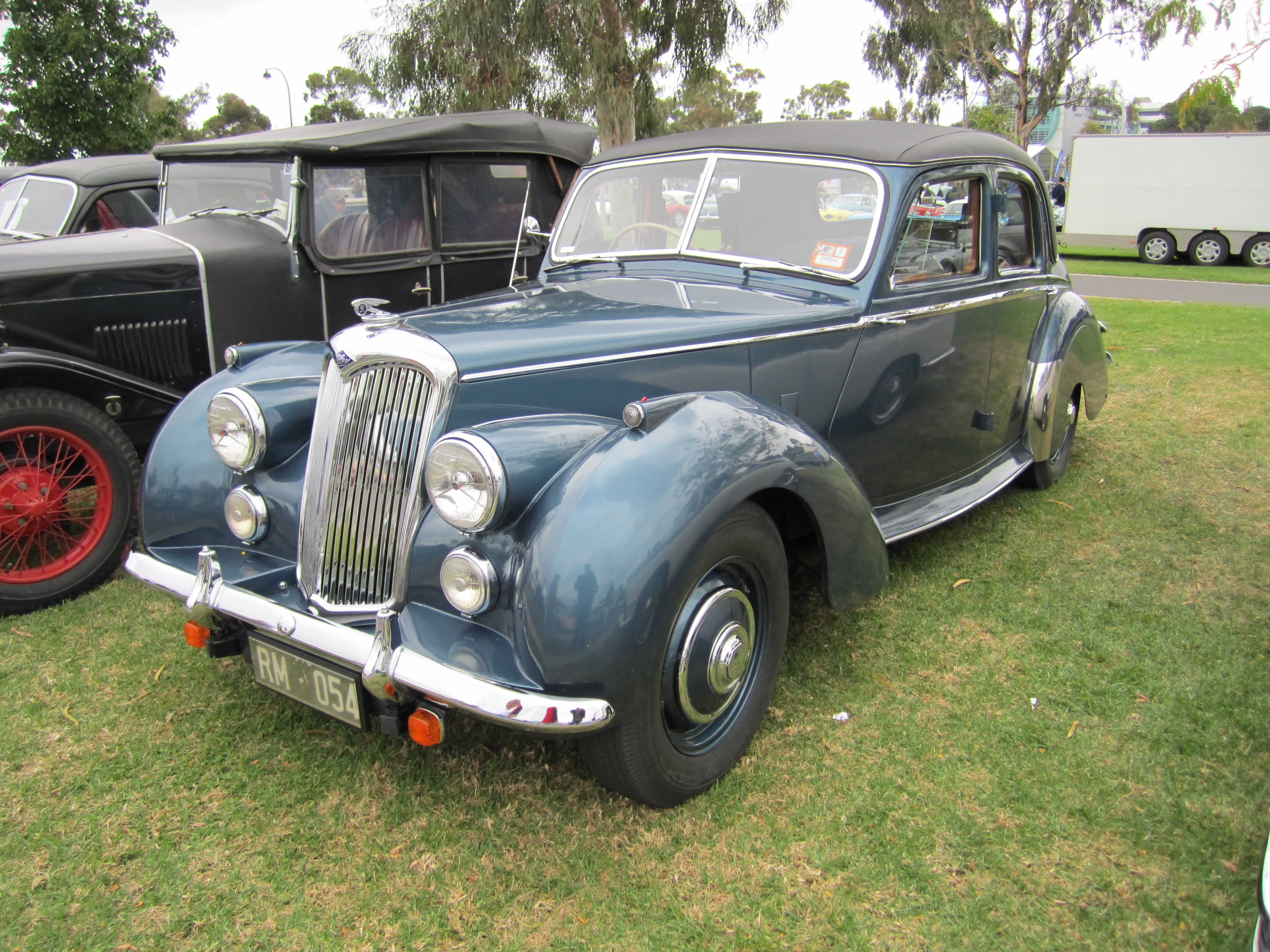 Built from 1952-55, before the Riley 1.5 & after the RMA.